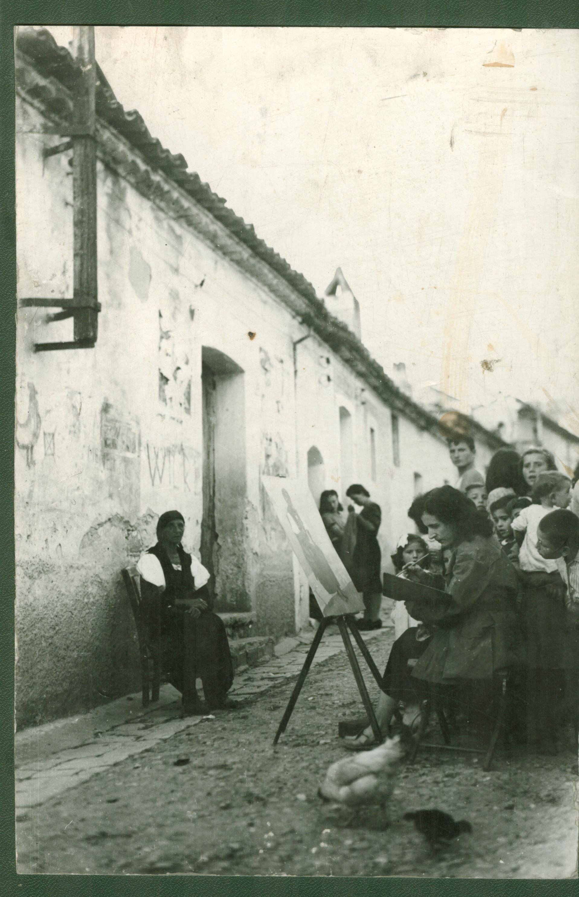 Maria Padula painting between people in Montemurro